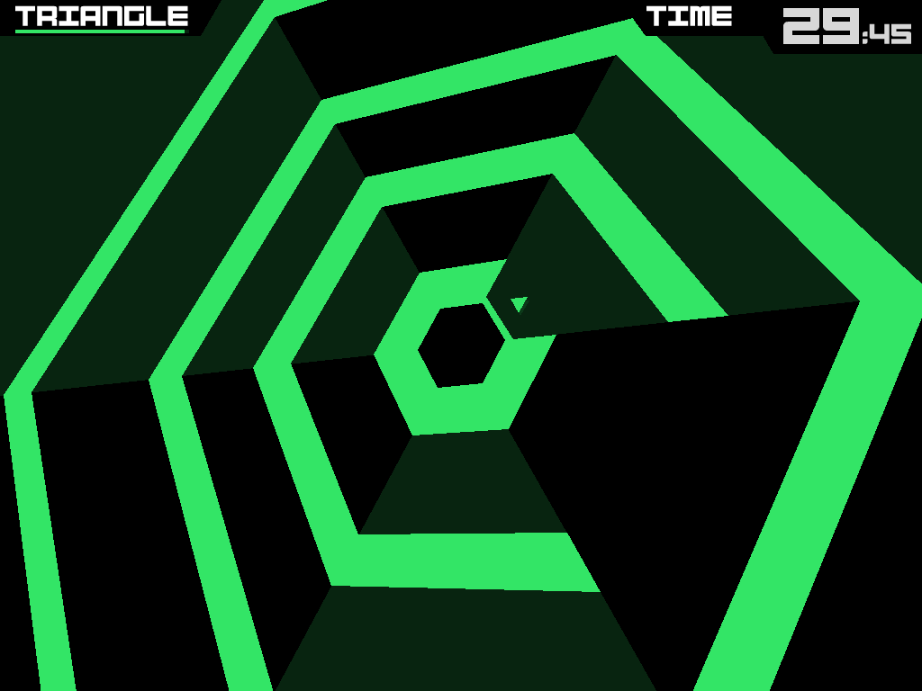 Super Hexagon iPad version screenshot, depicting the Hexagoner difficulty level. Released in 2012, the game was developed by Terry Cavanagh.